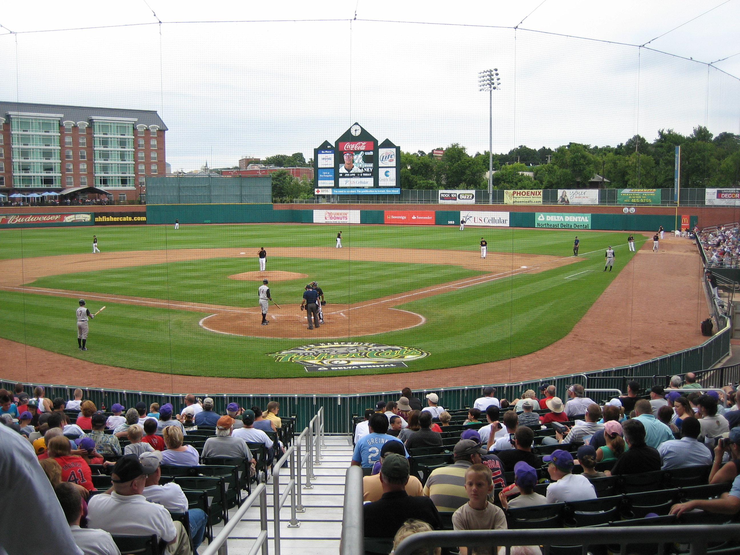 Fishercats stadion